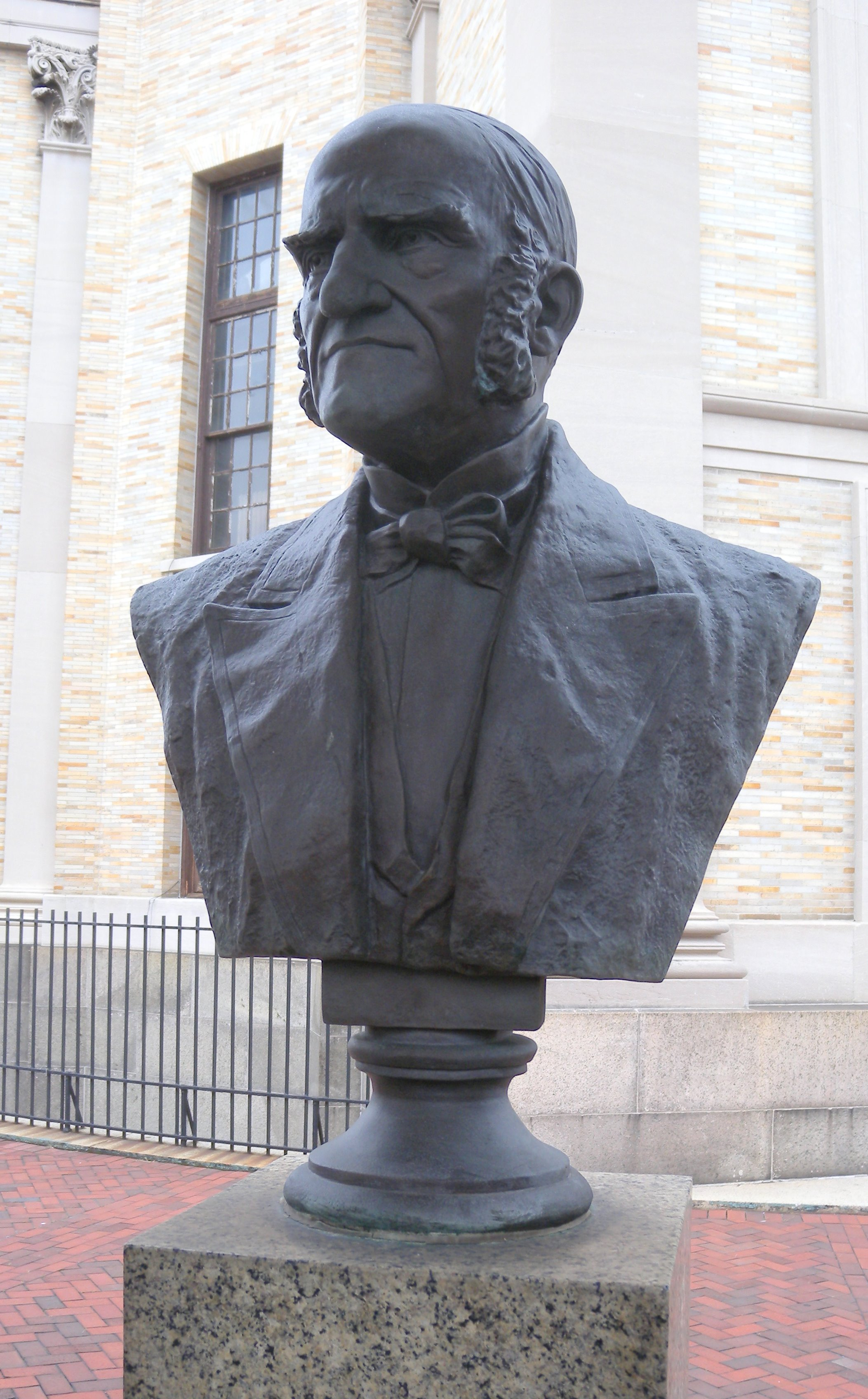 Hopkins bust